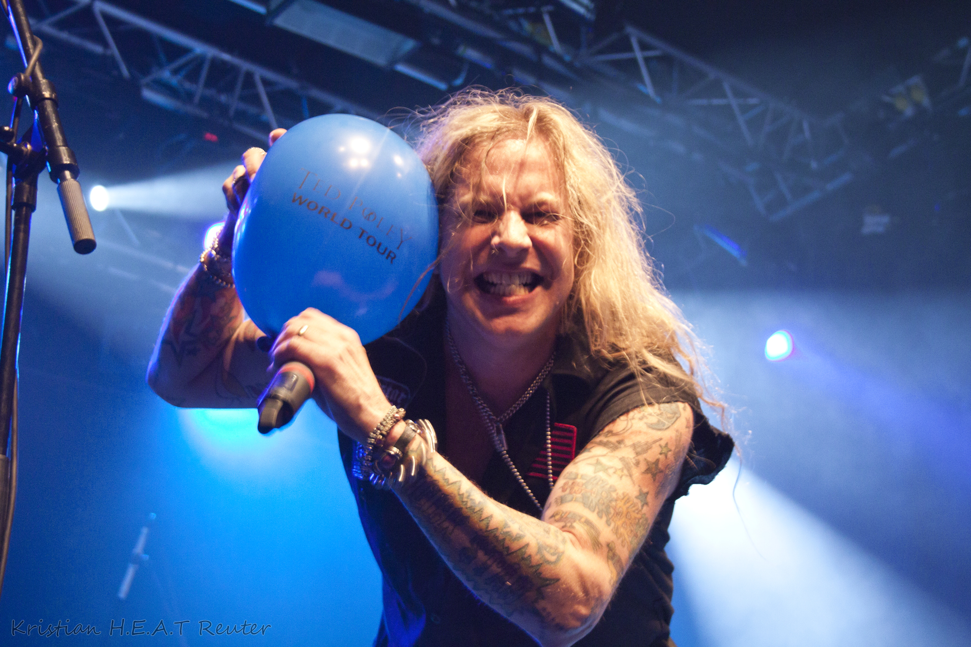 Ted Poley live in Stockholm Sweden, December 3rd, 2010